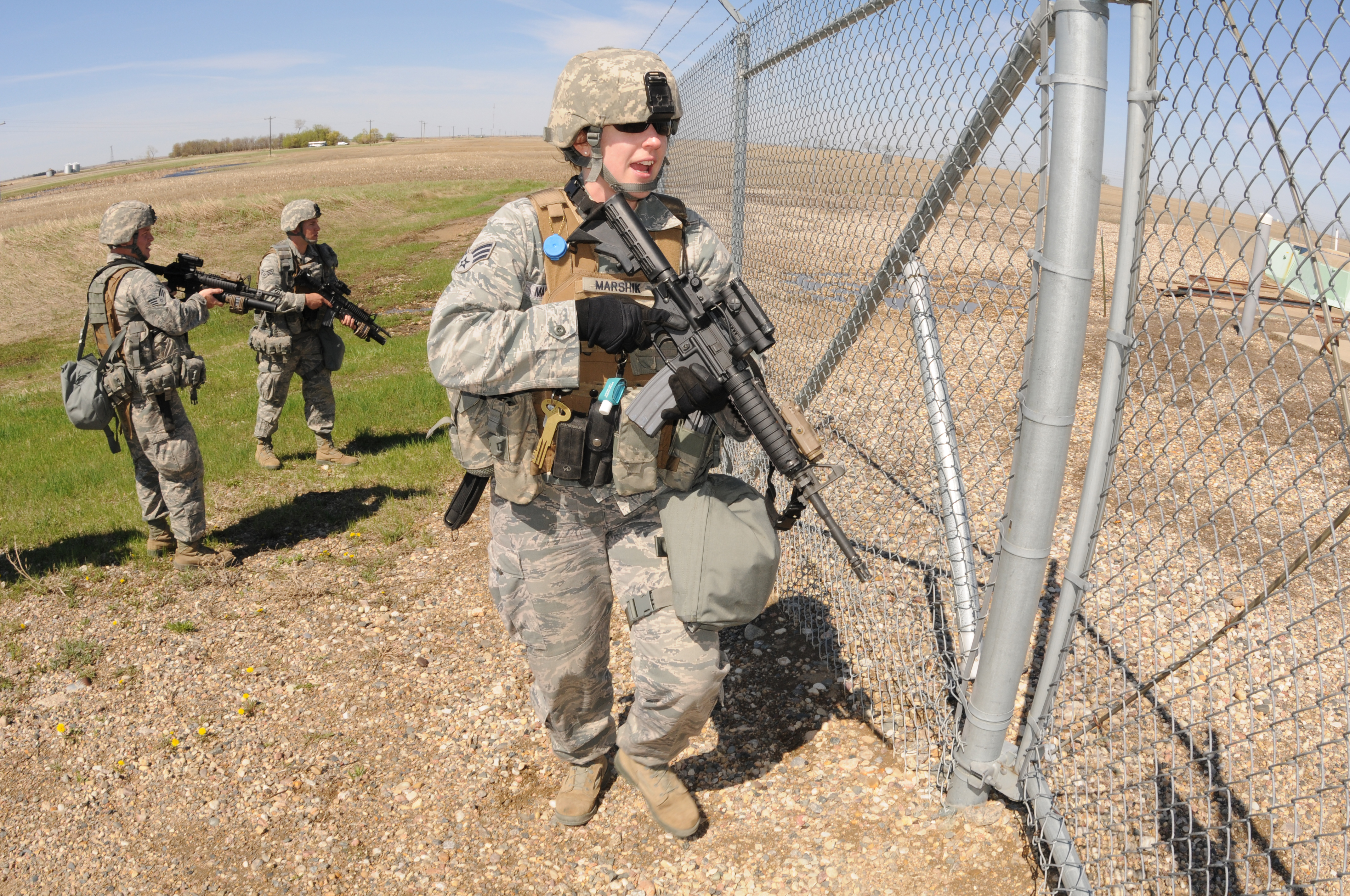 U.S. Air Force Senior Airman Jennifer Marshik, right, with the 219th Security Forces Squadron (SFS), North Dakota Air National Guard, approaches a launch facility gate during an exercise at the Minot Air Force Base missile field complex near Minot, N.D., May 22, 2013. The exercise was a final step in the integration of the Air Force's 91st Missile Security Forces Group and the Air National Guard's 219th SFS.